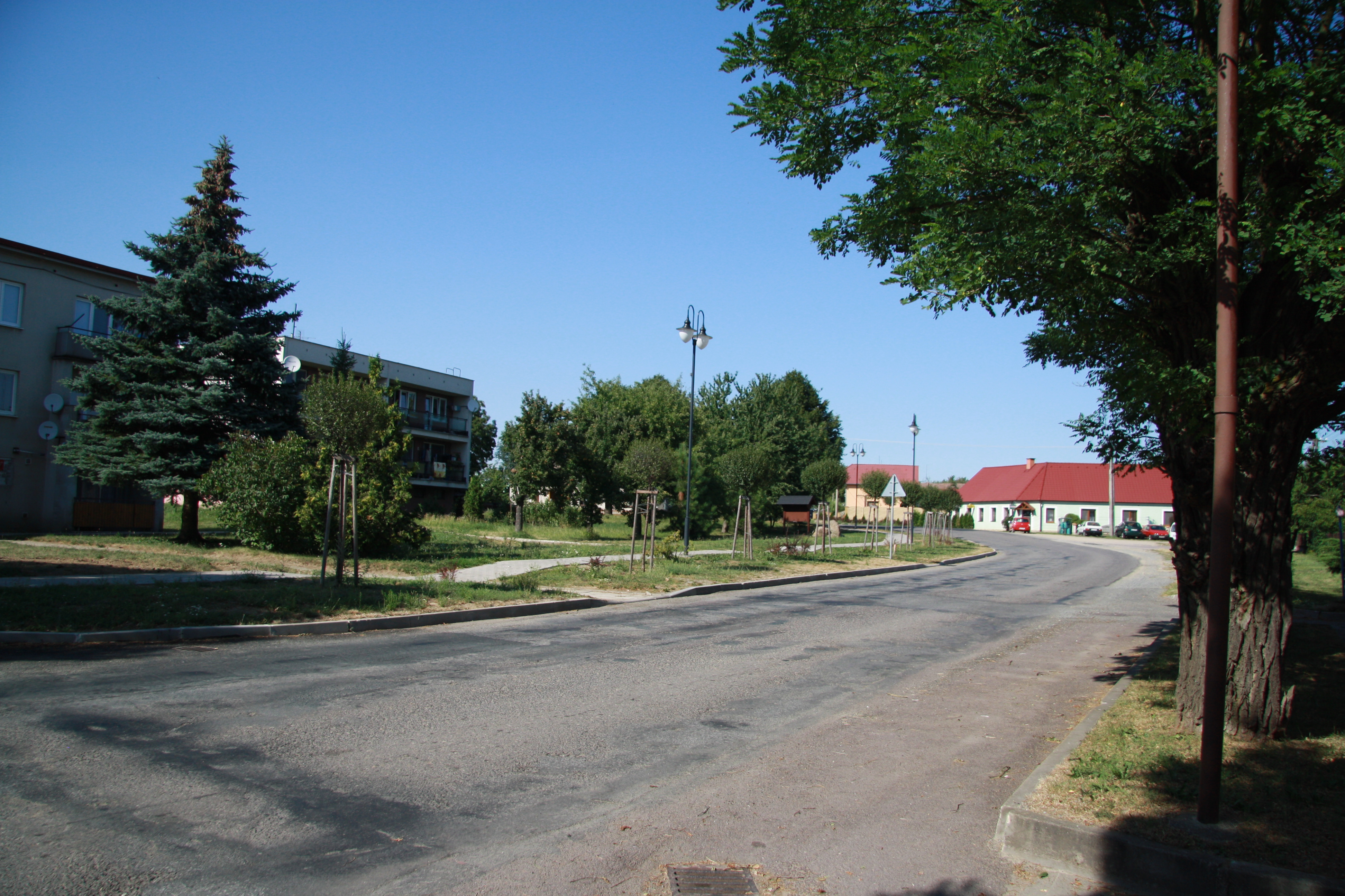 Center of Nové Syrovice, Třebíč District.